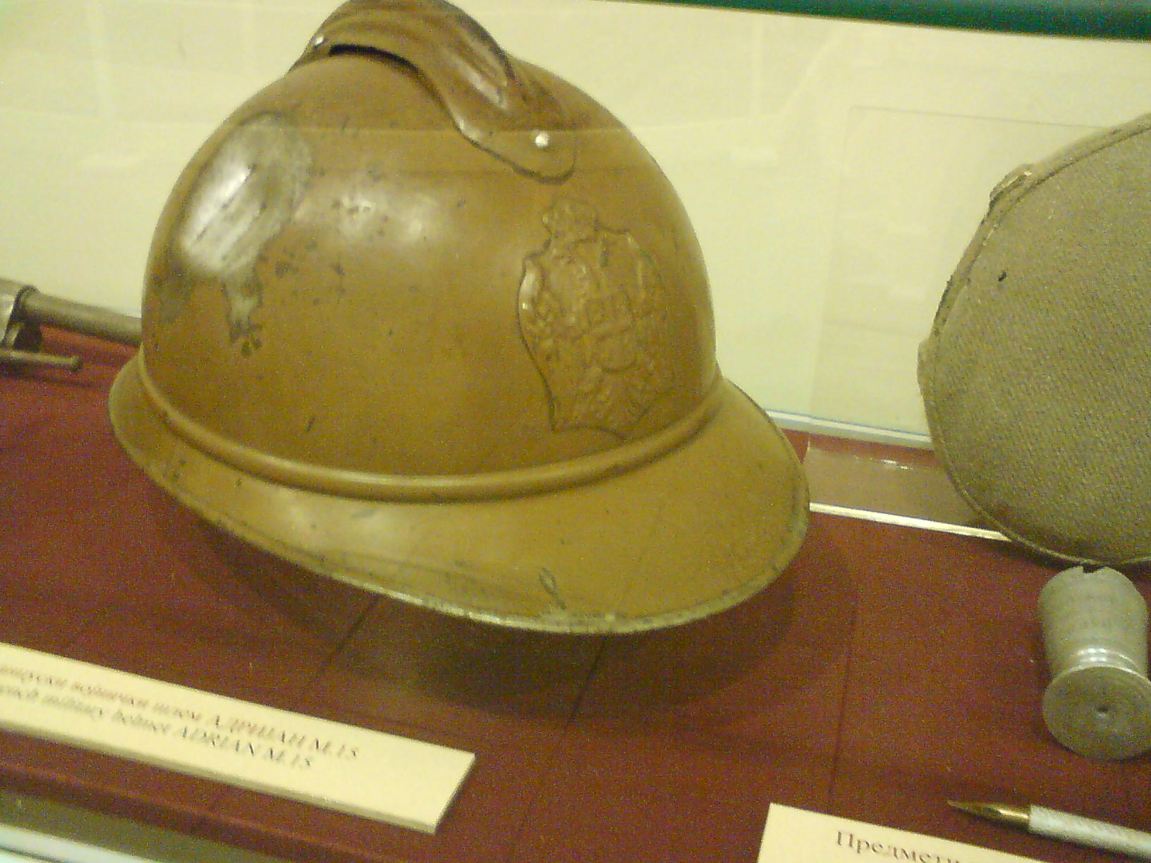 M15 Adrian Helmet of Serbian Royal Army